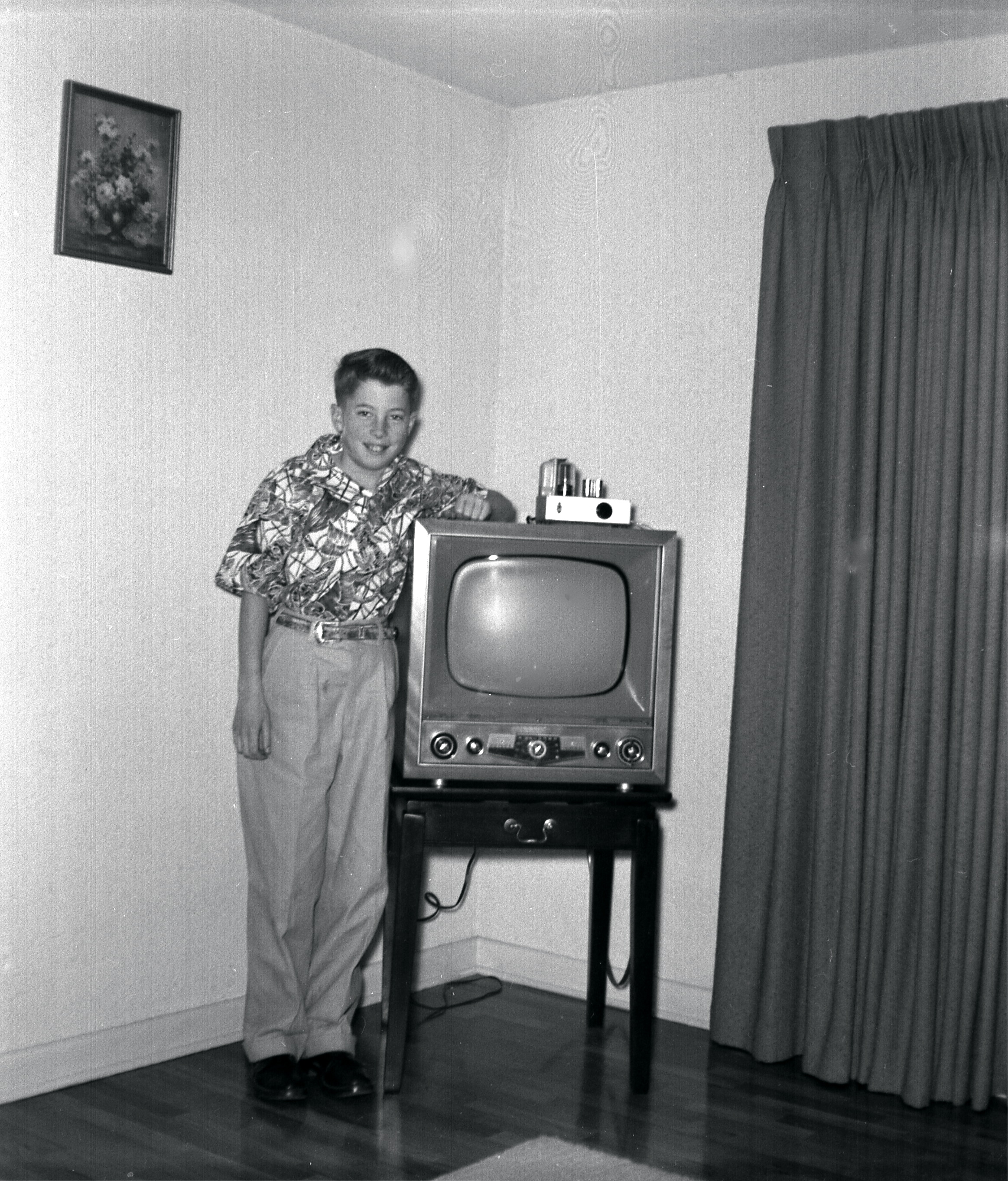 We got the set in late 1952 or early 1953; the photo is probably from the same time and was taken in Eugene, Oregon (USA). Until a local station started broadcasting, we only got a very fuzzy picture from a UHF station in Portland. The cable going off to the right went to a UHF antenna on top of a 40-foot mast on the roof; later in 1953, there was another cable going through the wall on the right connected to a VHF antenna lower on the mast to pick up signals from a new TV station in Eugene.